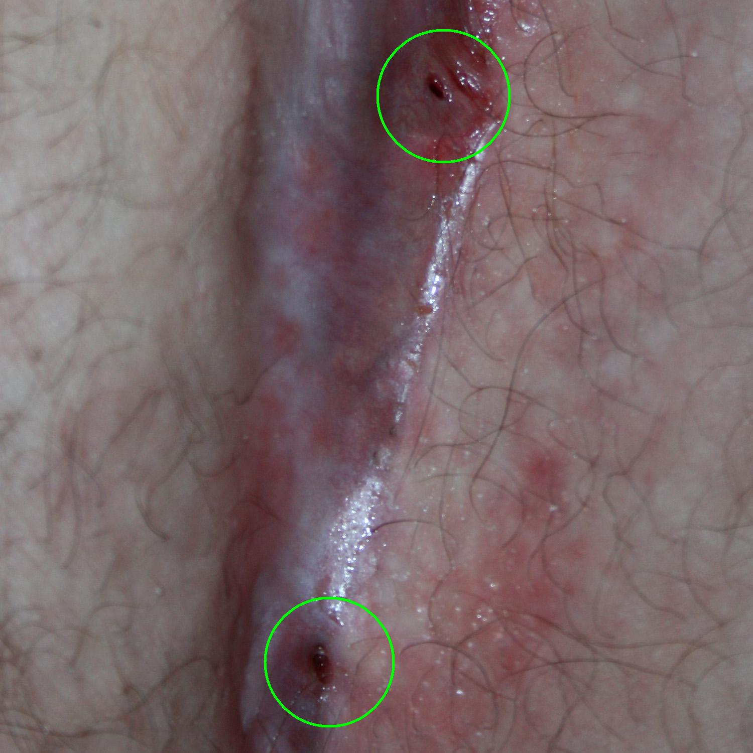 Two pilonidal cysts that have formed in the gluteal cleft of an adult male.